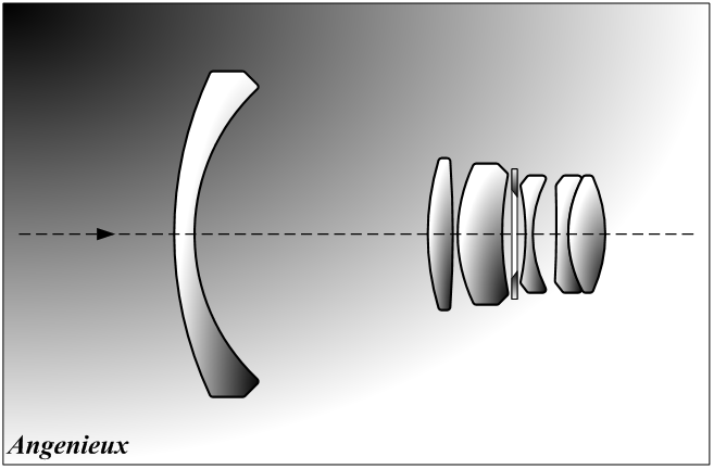 Basic layout of Angenieux retrofocus lens.